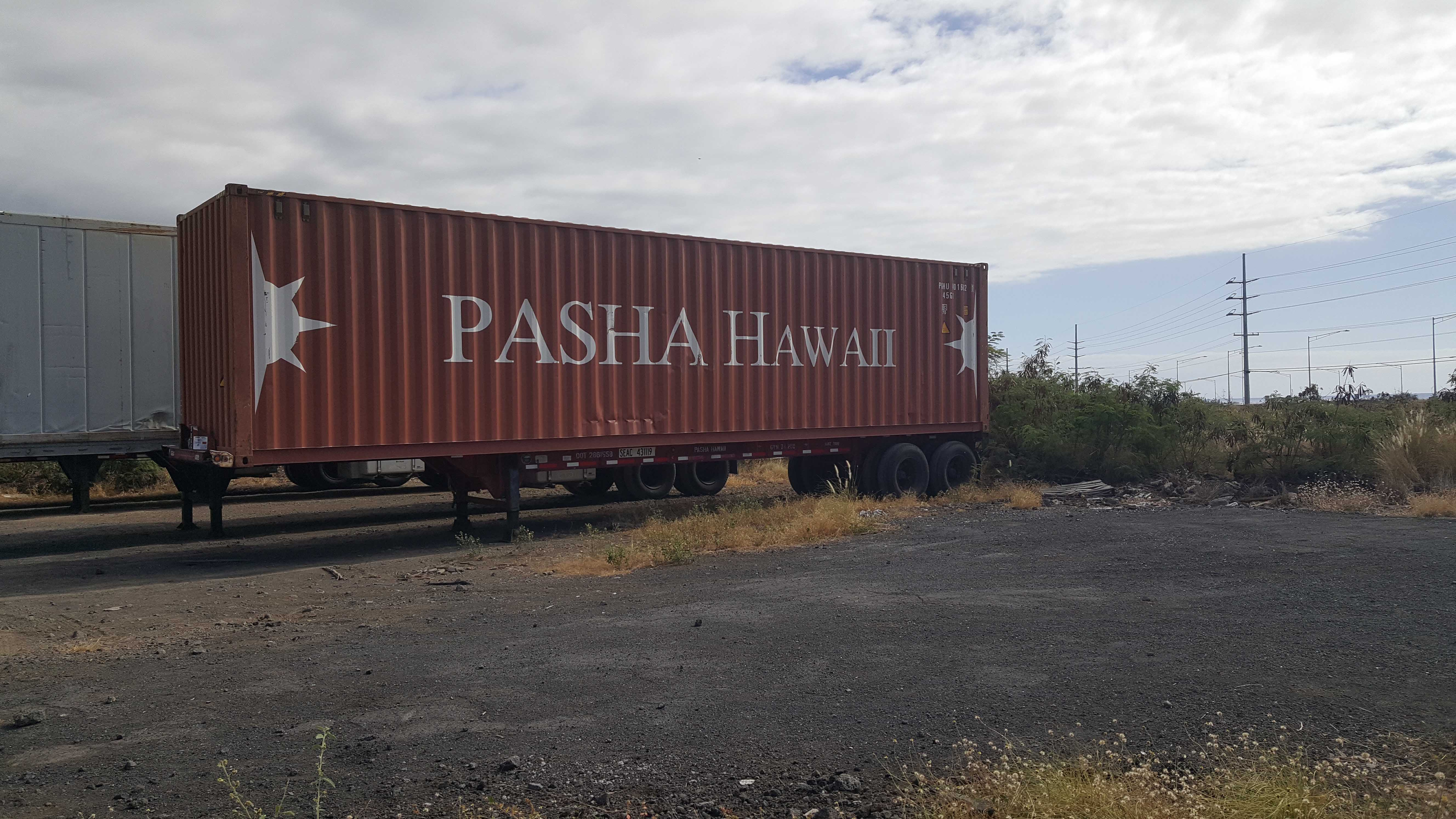 Pasha Hawaii's shipping container on Hale Makai Place, Kailua Kona, Hawaii